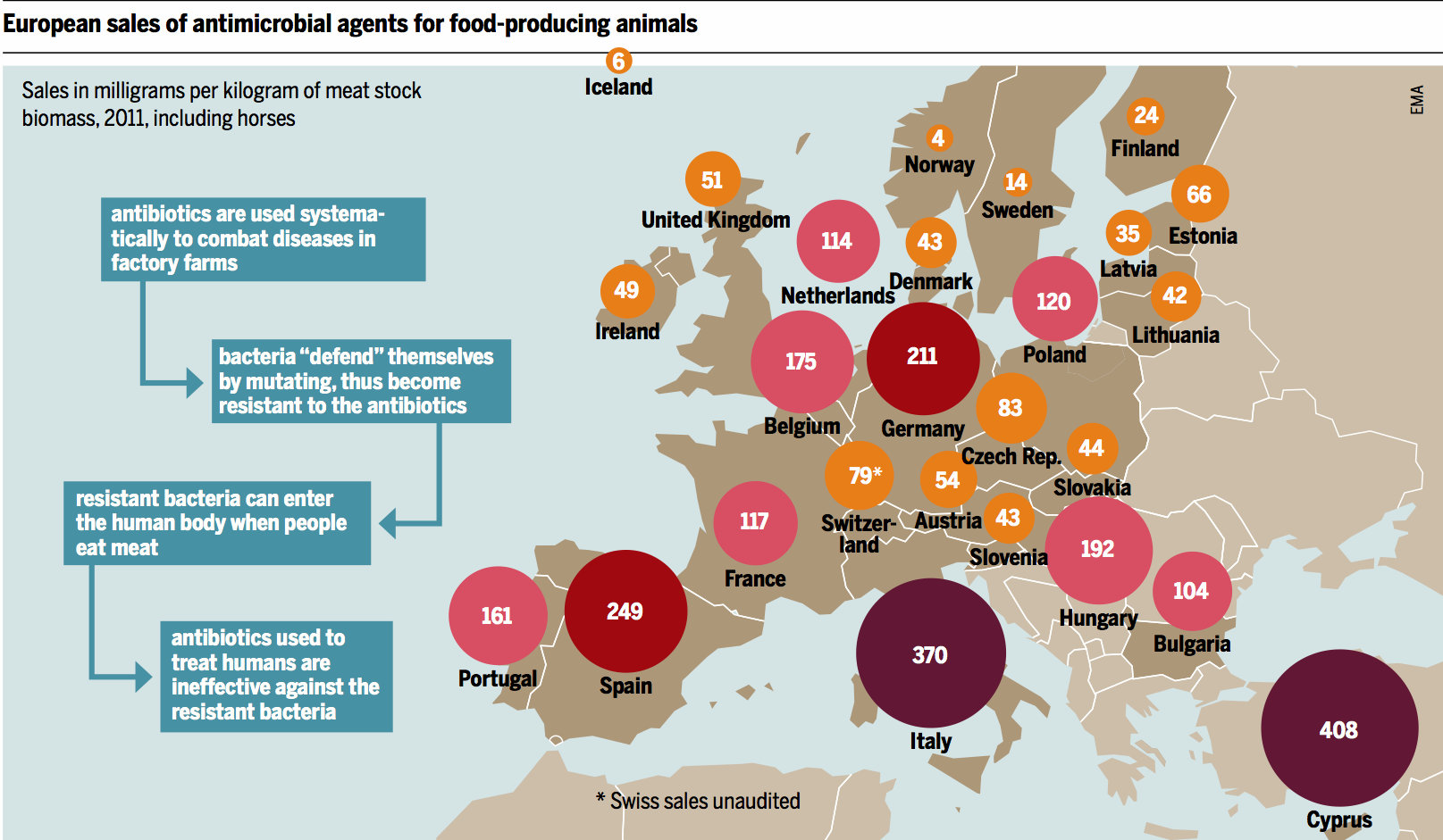 European sales of antimicrobial agents for food-producing animals